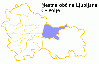 author: Navportus 18:44, 26 June 2007 (UTC) description: area of Polje, part of Ljubljana